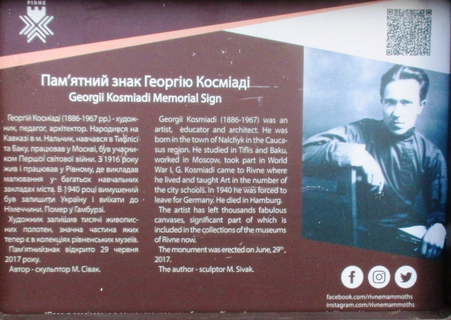 Commemorative sign of Georgi Cosmiadі